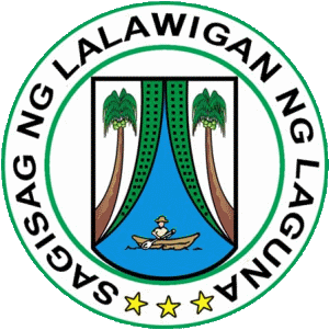 Provincial seal of Laguna, Philippines.